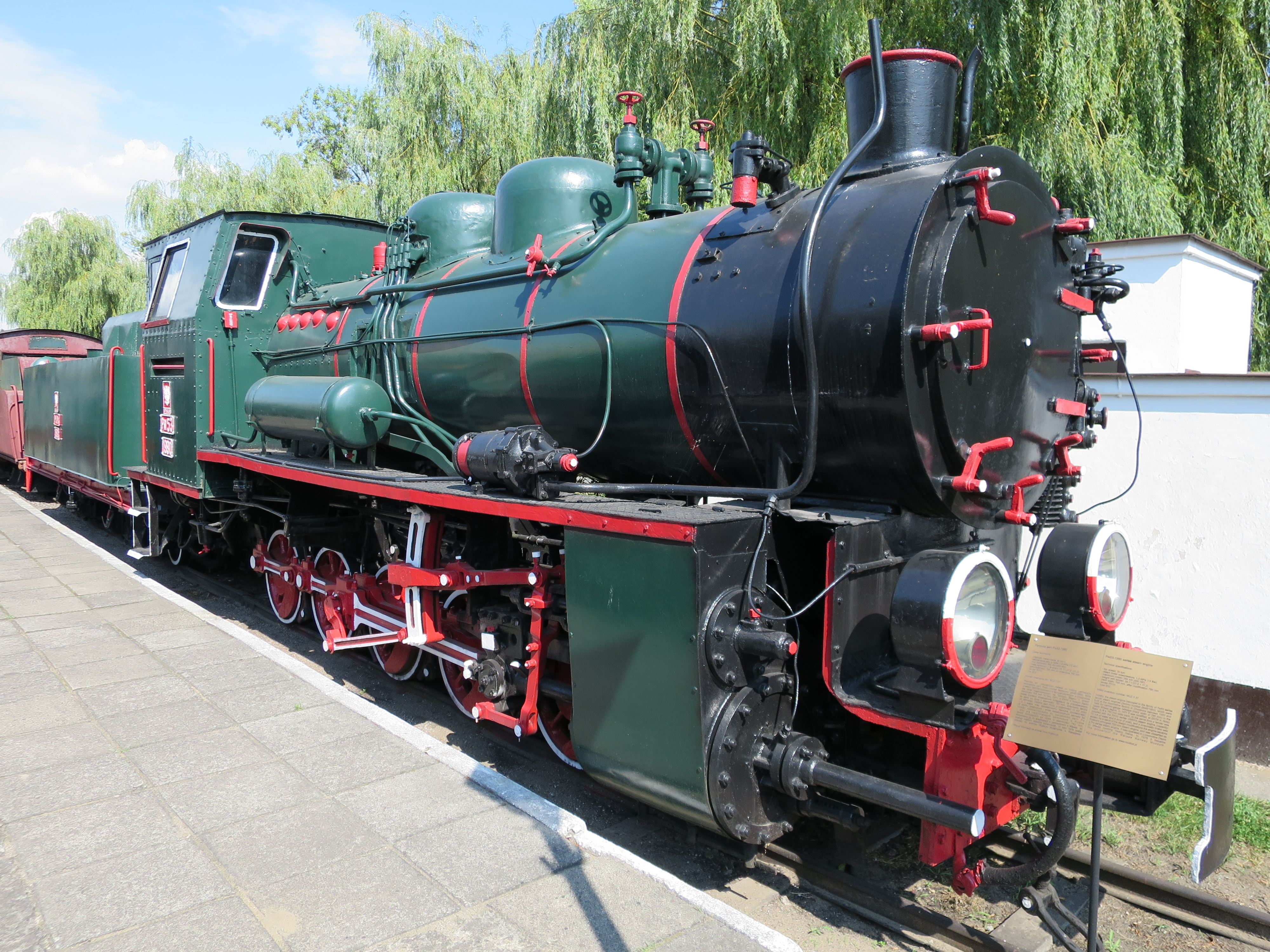 Pw53-1980. Muzeum Kolei Wąskotorowej w Sochaczewie This photo was taken during Railway Wikiexpedition 2015 set up by Wikimedia Polska Association in cooperation with Fundacja Grupy PKP. You can see all photographs in category Wikiekspedycja kolejowa 2015.